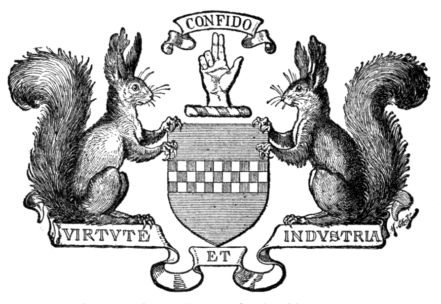 Fig. 668.—The arms used by Kilmarnock, Ayrshire, based on arms from Clan Boyd, Earls of Kilmarnock: Azure, a fess chequy gules and argent. Crest: a dexter hand raised in benediction. Supporters: on either side a squirrel sejant proper.